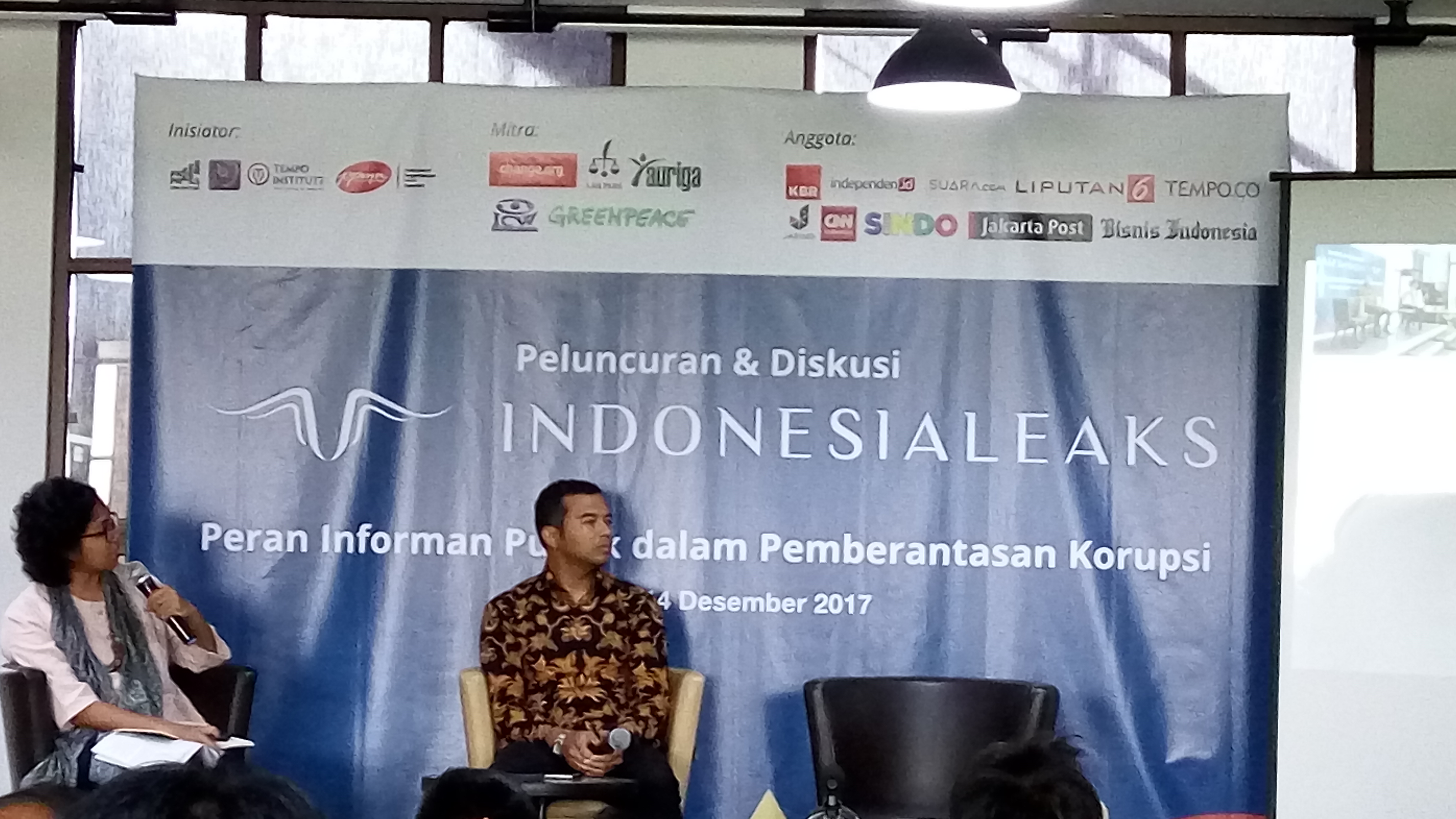 Launching ceremony of Indonesialeaks whistleblower platform in Jakarta, Thursday, December 14th, 2017